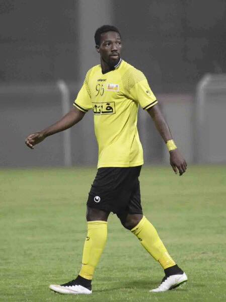 Abdoulaye Koffi in a match against Al Seeb Club.; Al Seeb Stadium